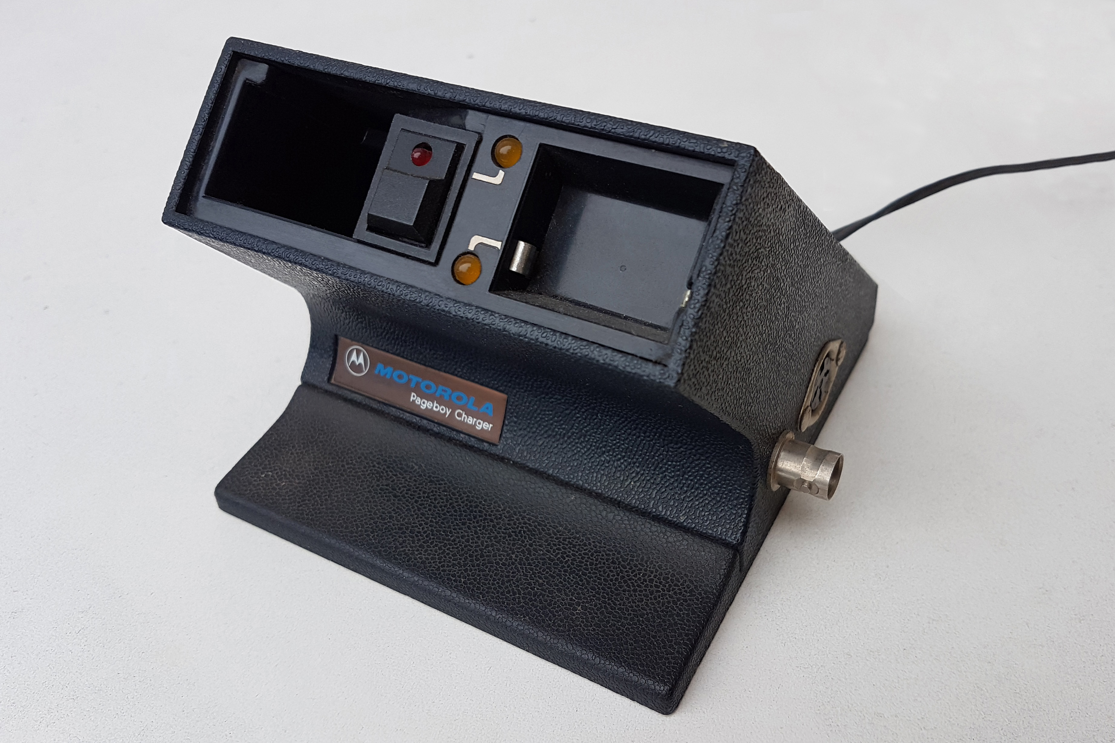 Motorola Pageboy Charger GLN 6441 A